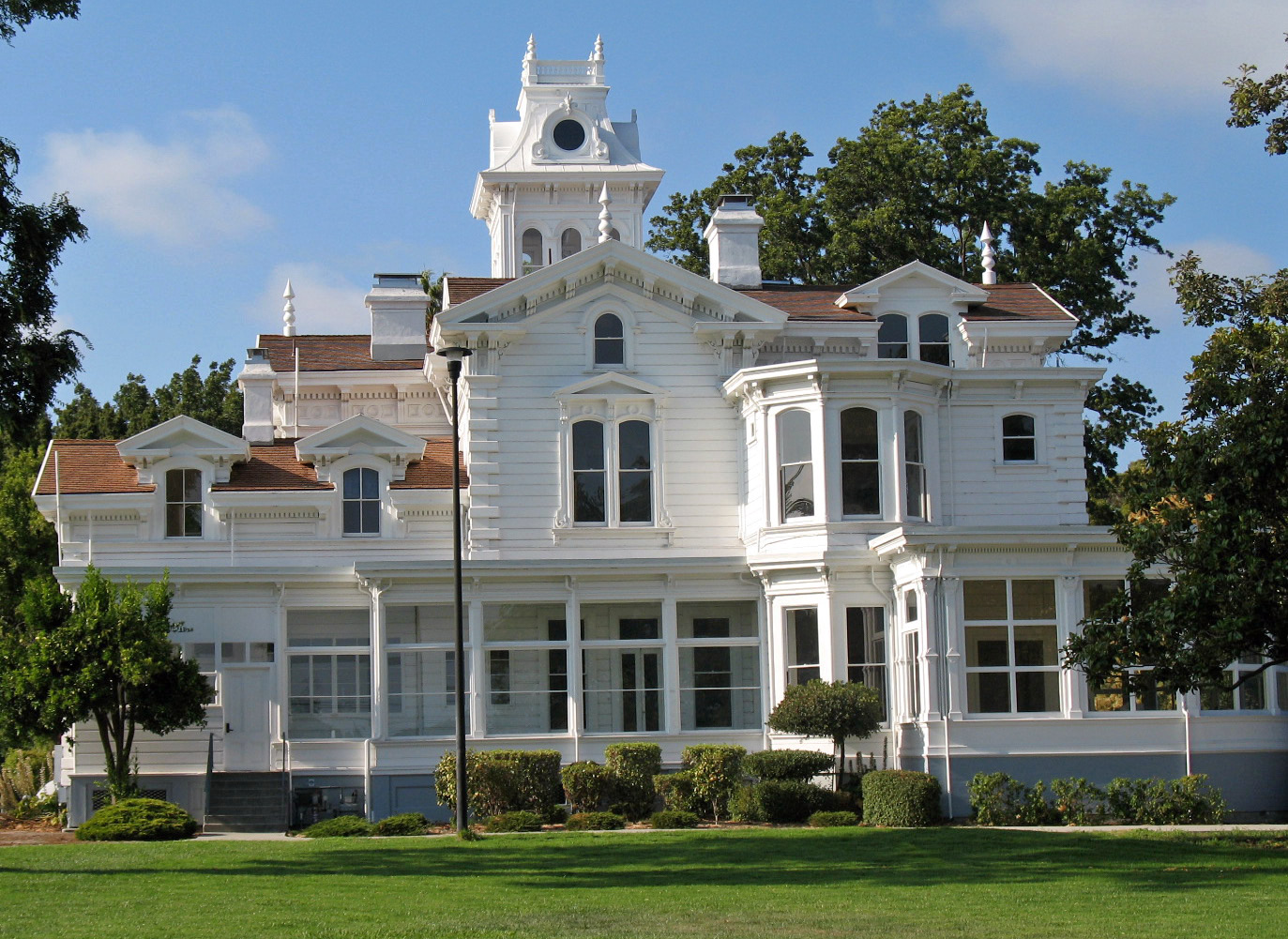 Registered Historic Places in Alameda County, California. Meek Mansion, 240 Hampton Rd, Hayward, California, USA. Photographed 2008-08-17 from the south end of Meek Park.